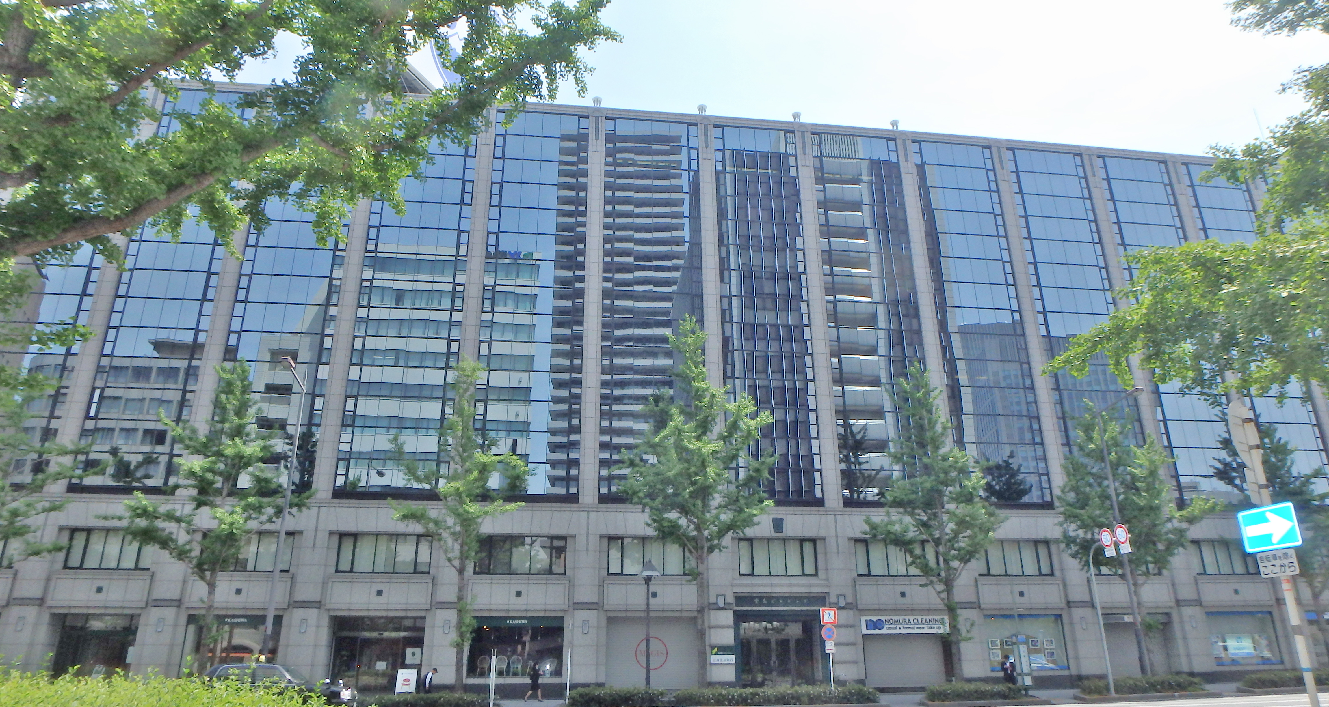 Dojima Building Osaka prefecture,Japan